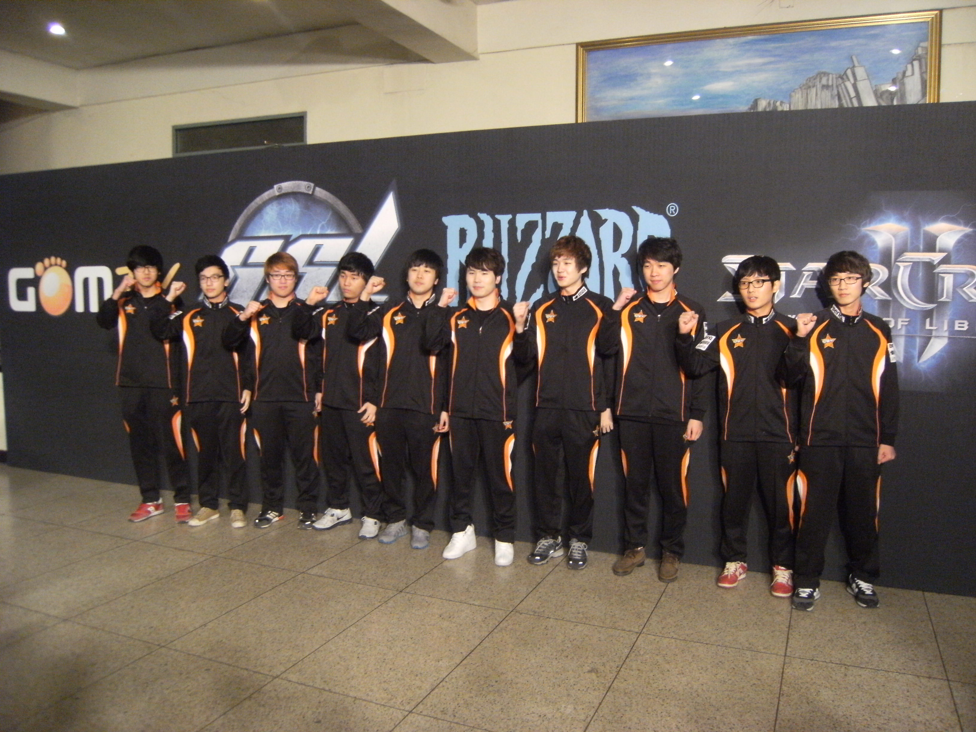 Starcraft II team StarTale